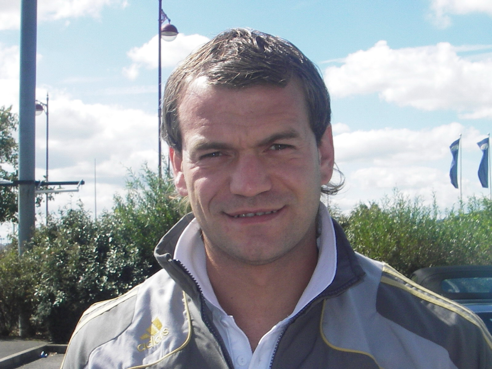 Derby County player from January 2008.